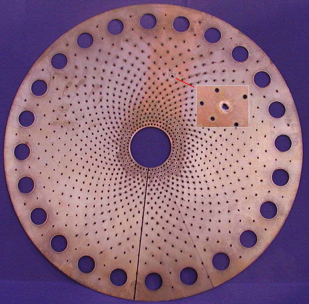 Copper conductor disk from a 16 T Bitter magnet, a powerful electromagnet used in scientific research. Diameter 40 cm. Instead of wire windings, Bitter magnets consist of a stack of split conductor disks like this, separated by insulating spacers. Electric current flows in a helical path through the stack of disks. The conducting disks have the strength to withstand the enormous Lorentz forces caused by the magnetic field. In operation this disk carries a current of 20,000 amperes. Cooling water flows through the holes in the disk to carry away the enormous waste heat. The magnetic field is created in the center hole. This disk has been damaged by excessive heat, shown in inset